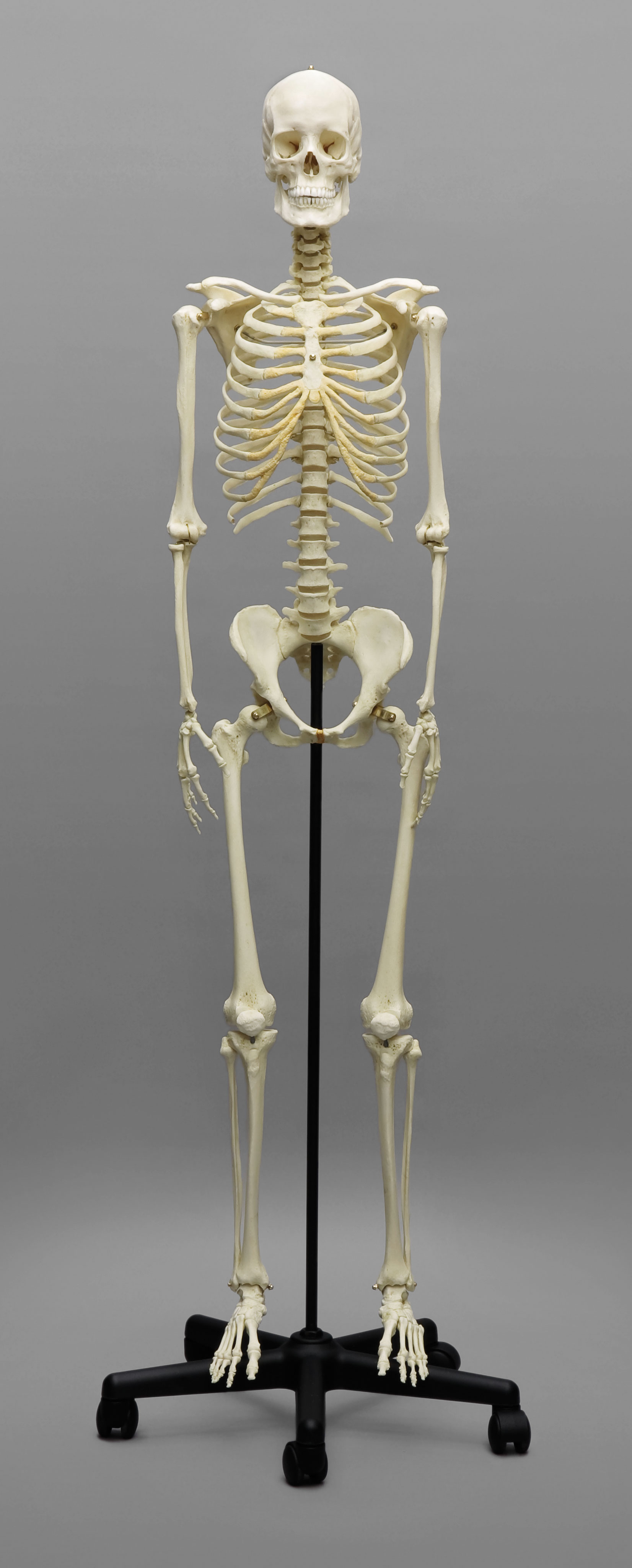 Bone Clones cast of a human european female skeleton